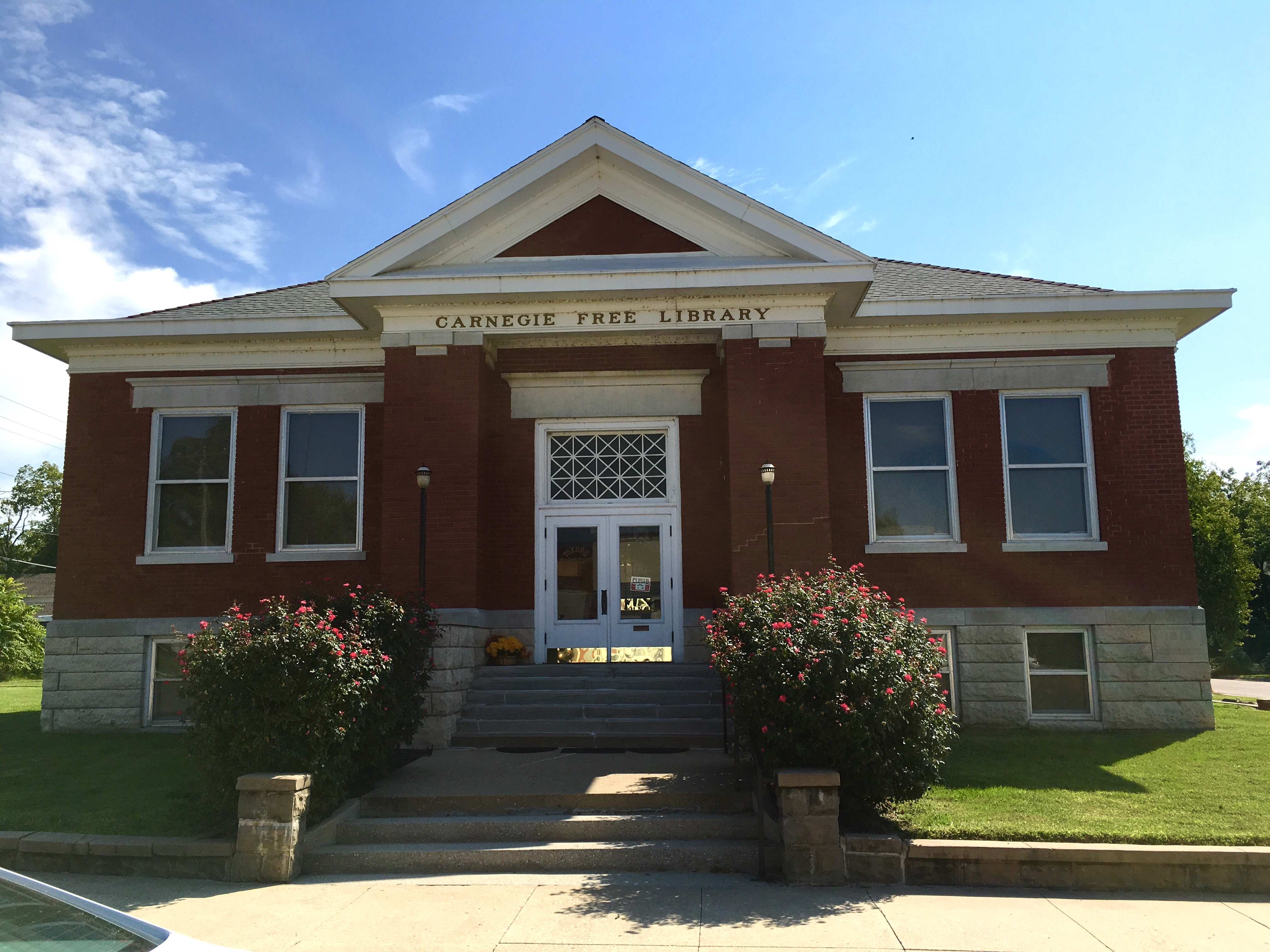 Carnegie Free Library in Burlington, Kansas, Coffee County 201 N. 3rd Street, Burlington, KS